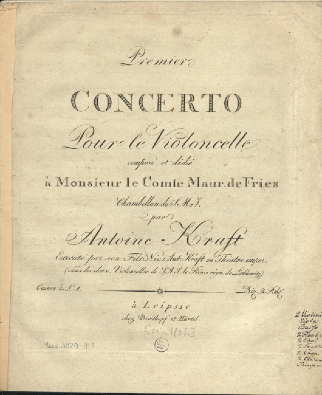 Front cover of the first edition of the First Cello Concerto in C Major by Anton Kraft (1805) Leipzig Publ. Breitkopf & Härtel Plate 283